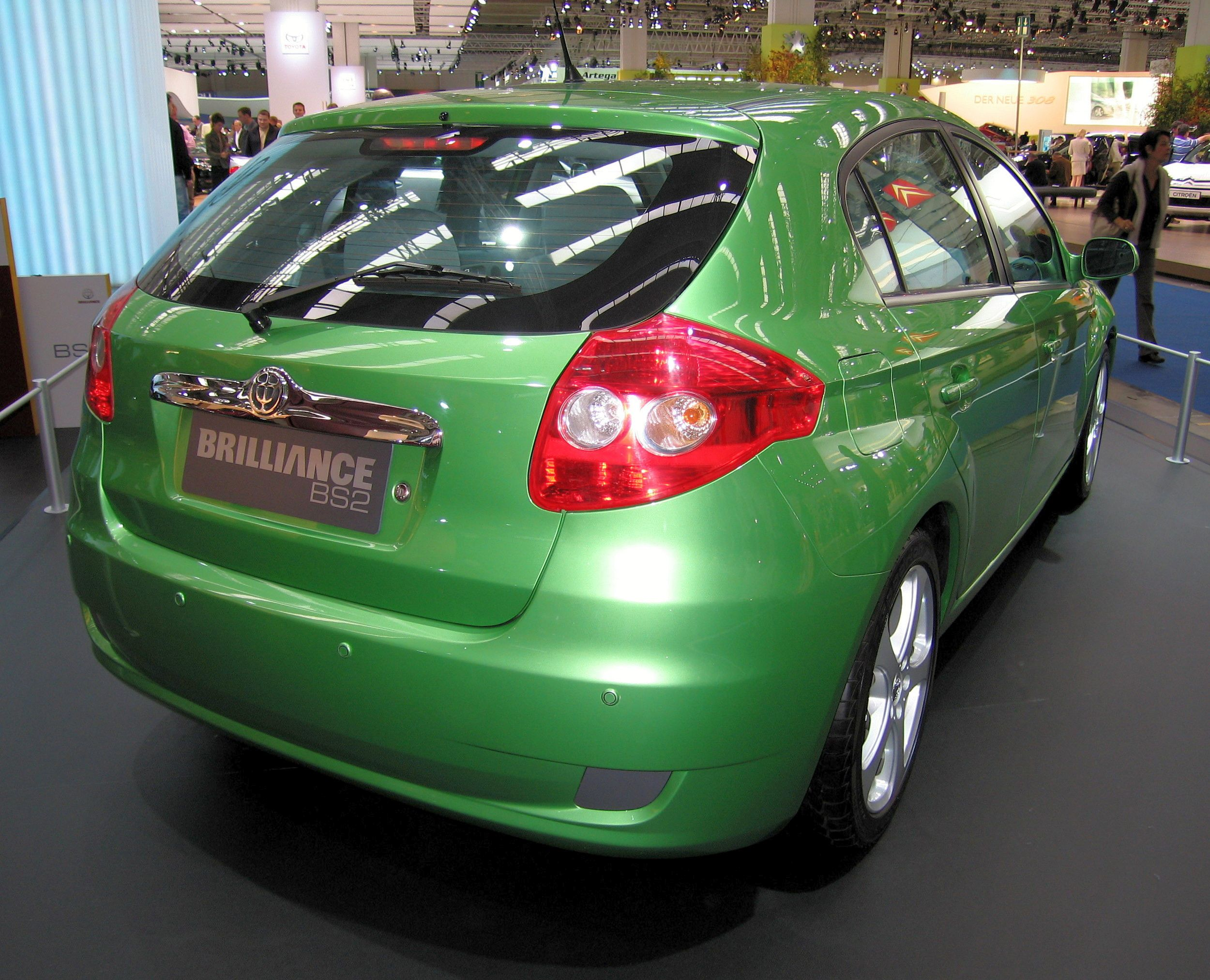 Brilliance BS2 at the IAA 2007